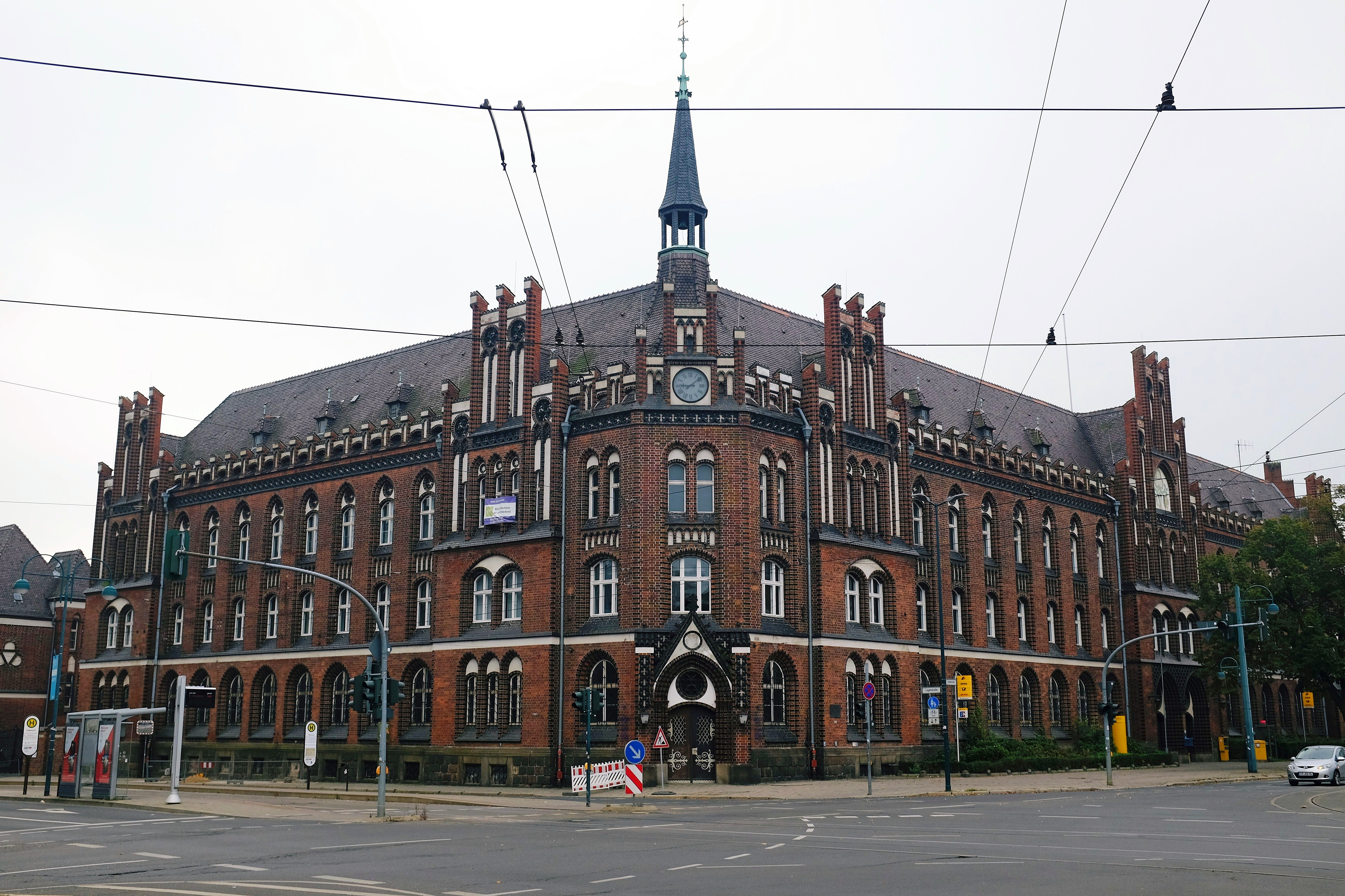 Frankfurt (Oder)